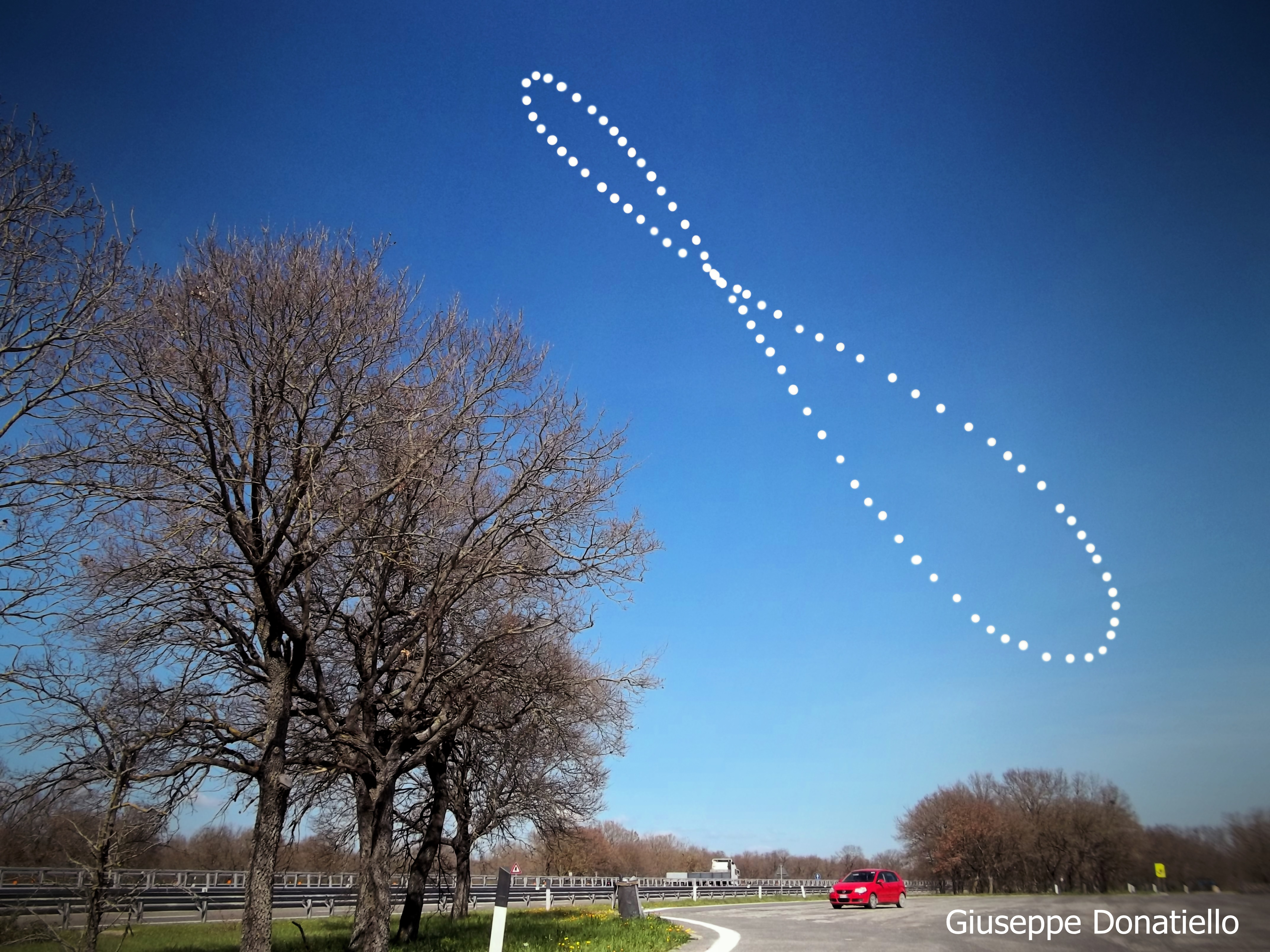 In astronomy, an analemma is a diagram showing the deviation of the Sun from its mean motion in the sky, as viewed from a fixed location on the Earth. Due to the Earth's axial tilt and orbital eccentricity, the Sun will not be in the same position in the sky at the same time every day.